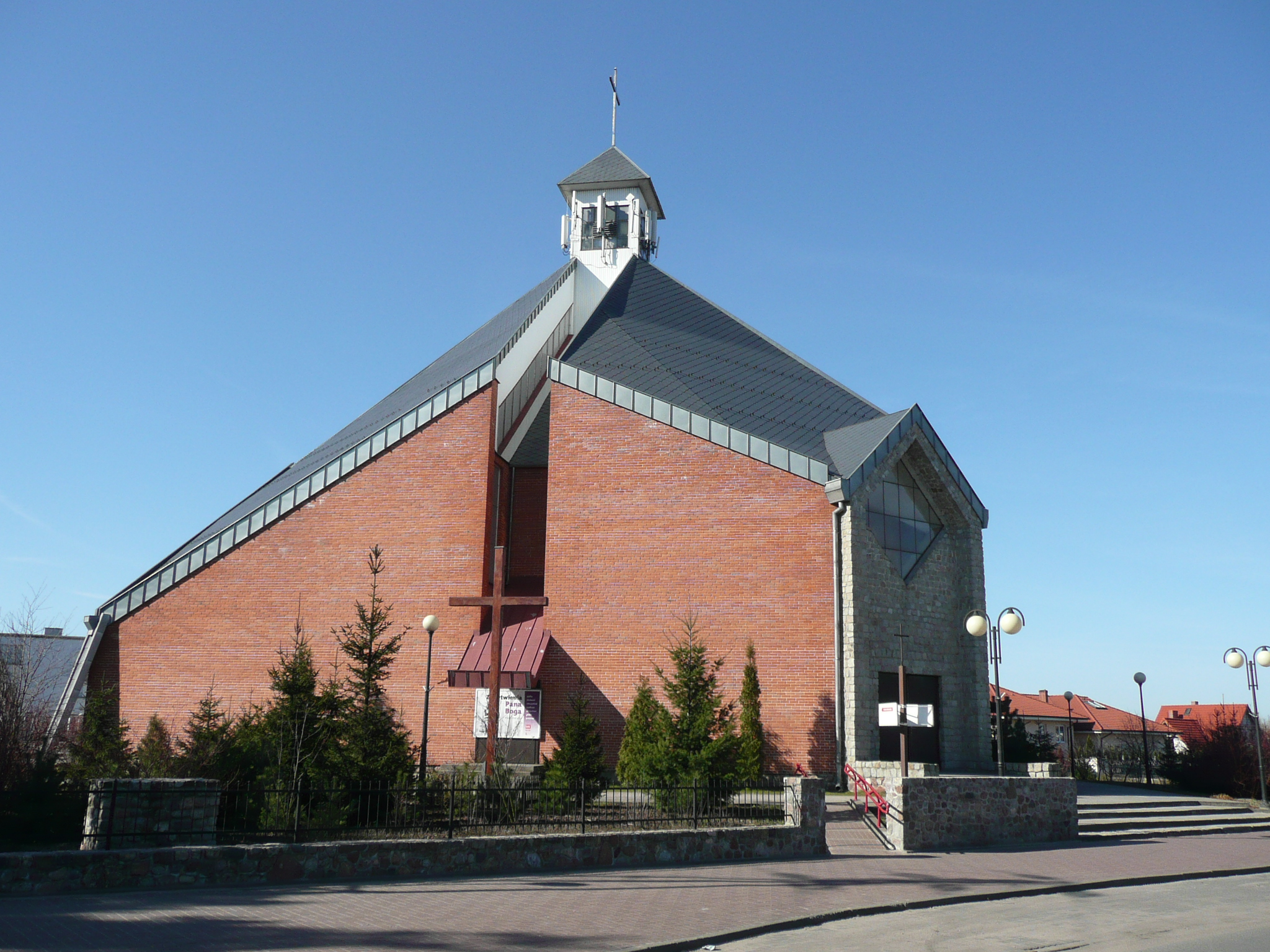 The church in Białe Błota, Poland.